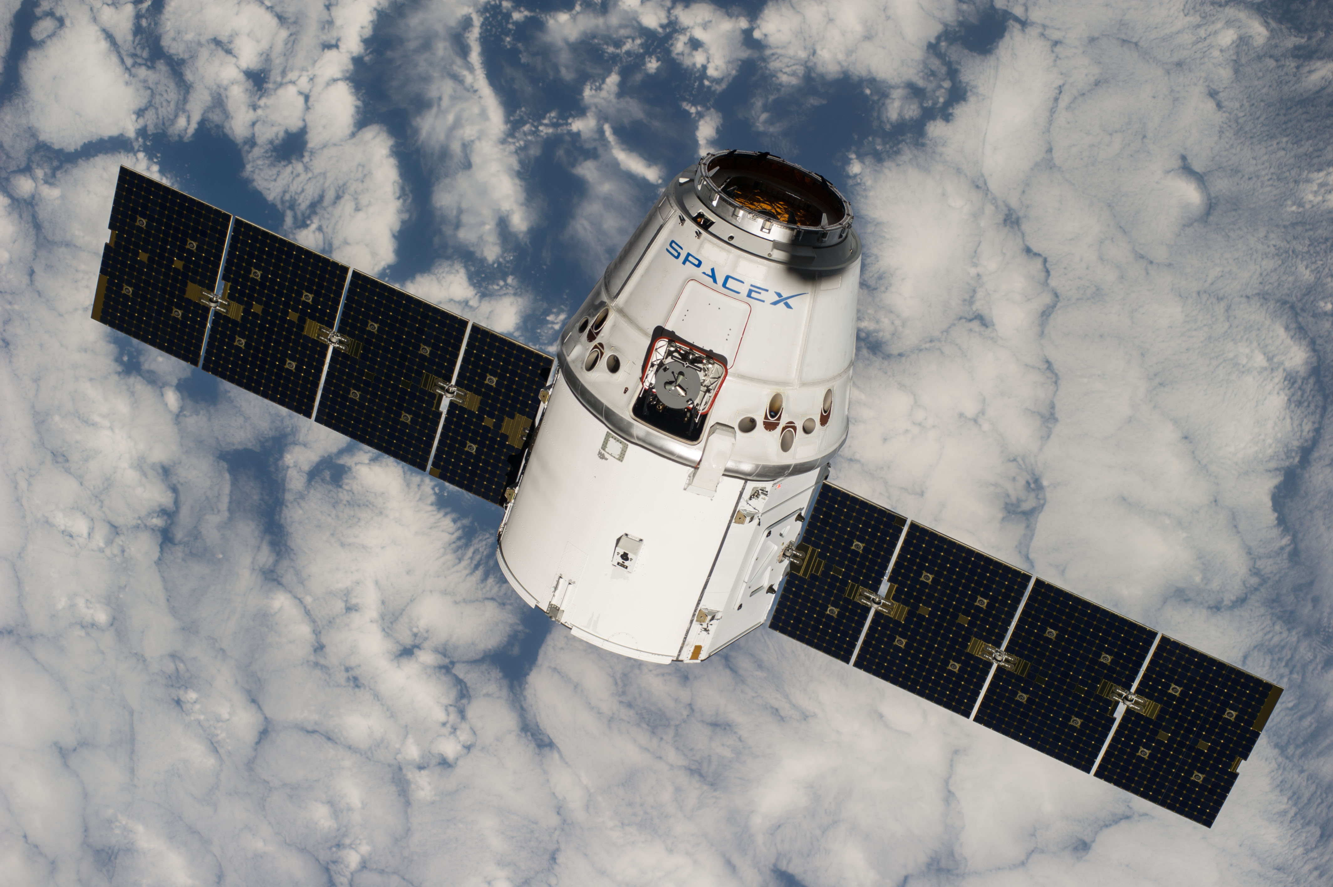 ISS041-E-020918 (23 Sept. 2014) --- The SpaceX Dragon commercial cargo craft approaches the International Space Station on Sept. 23, 2014 for grapple and berthing. European Space Agency astronaut Alexander Gerst and NASA astronaut Reid Wiseman, both Expedition 41 flight engineers, were at the controls of the robotics workstation in the Cupola when the Canadarm2 grappled Dragon at 6:52 a.m. (EDT). Dragon will spend the next four weeks attached to the Harmony node as the Expedition 41 crew unloads 4,885 pounds (2,216 kg) of crew supplies, hardware, experiments, and computer gear and spacewalk equipment.